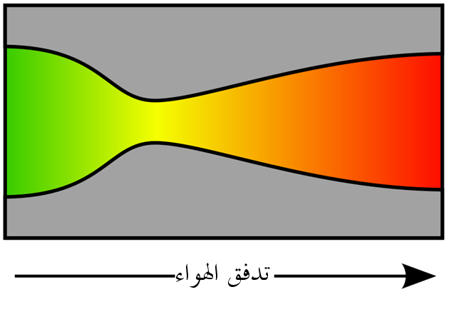 A diagram of a de Laval nozzle, showing flow from left to right. Color represents roughly the speed of flow, from green (slow) to red (fast).